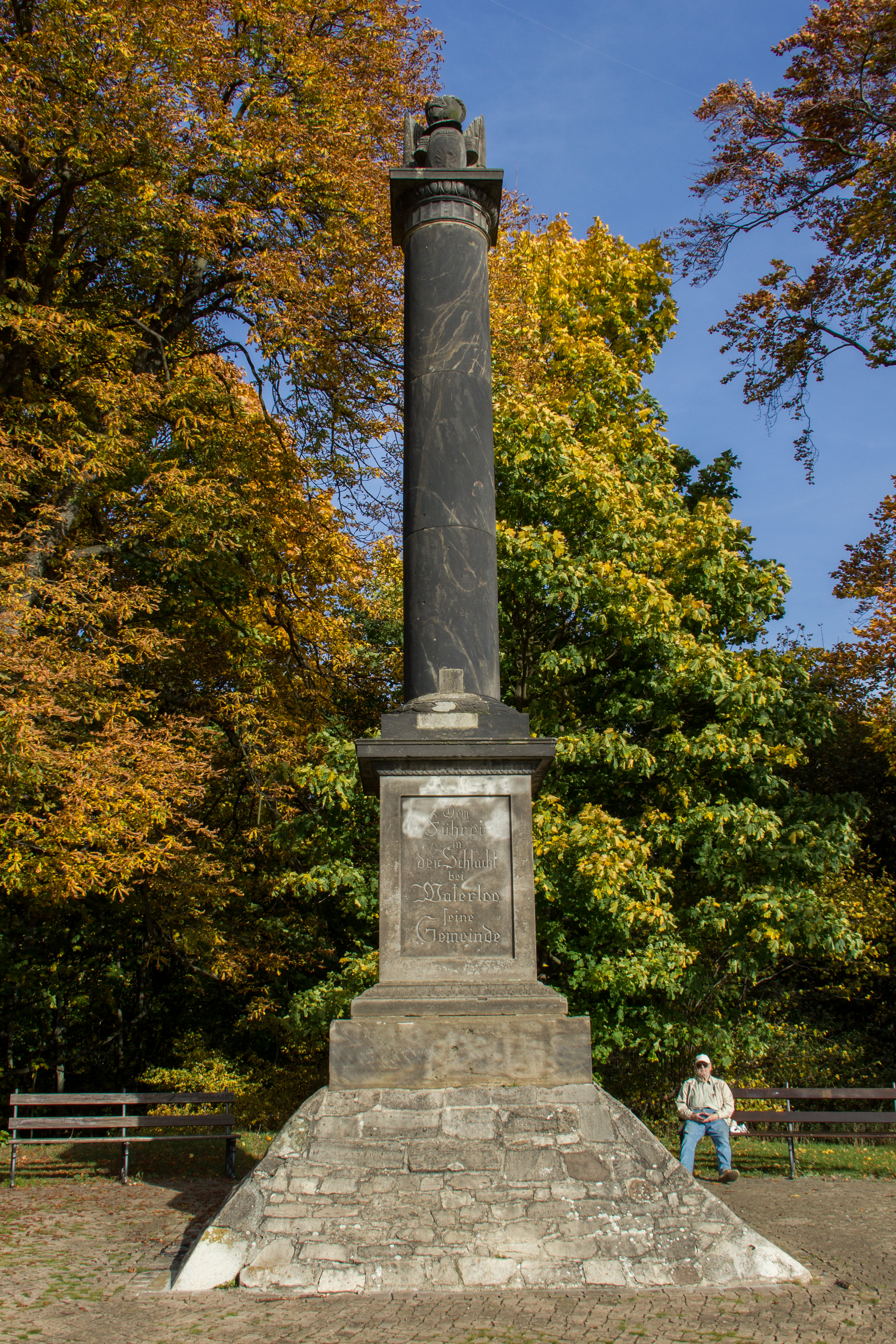 Olfermann monument on the Nußberg in Brunswick, Germany. Build on October, 18th 1832 celebrating the 10th obit of Johann Elias Olfermann, an army officer from Brunswick who has led the troops form Brunswick during the battle of Waterloo.